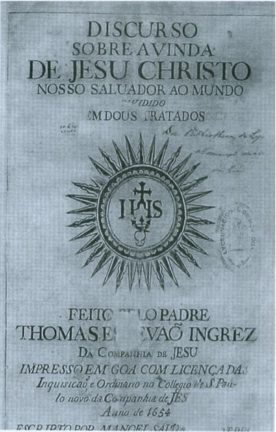 The Krista Purana (1654) 3rd edition by Fr. Thomas Stephens, an English Jesuit, missionary in India.